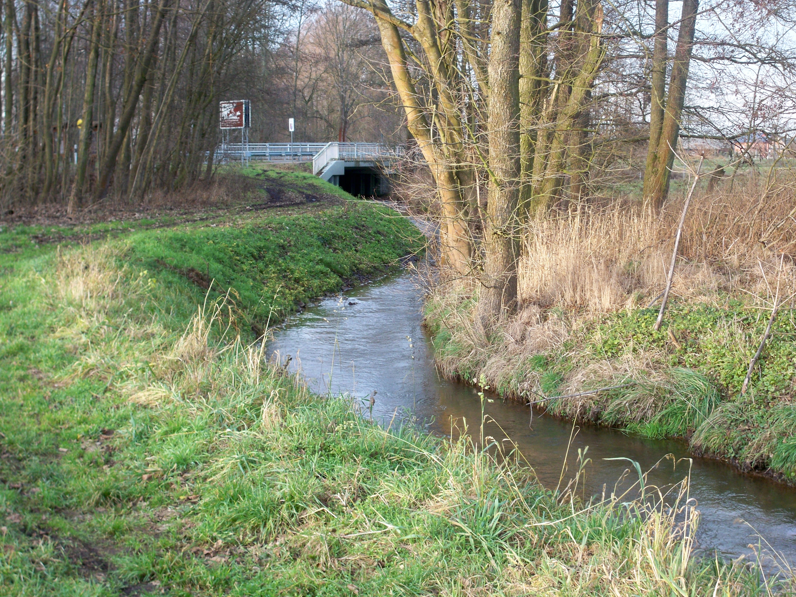 Zasenbeck (Lower Saxony) (left) / Hanum (Saxony-Anhalt); Ohre river and sign commerating the fall of the intra-German border